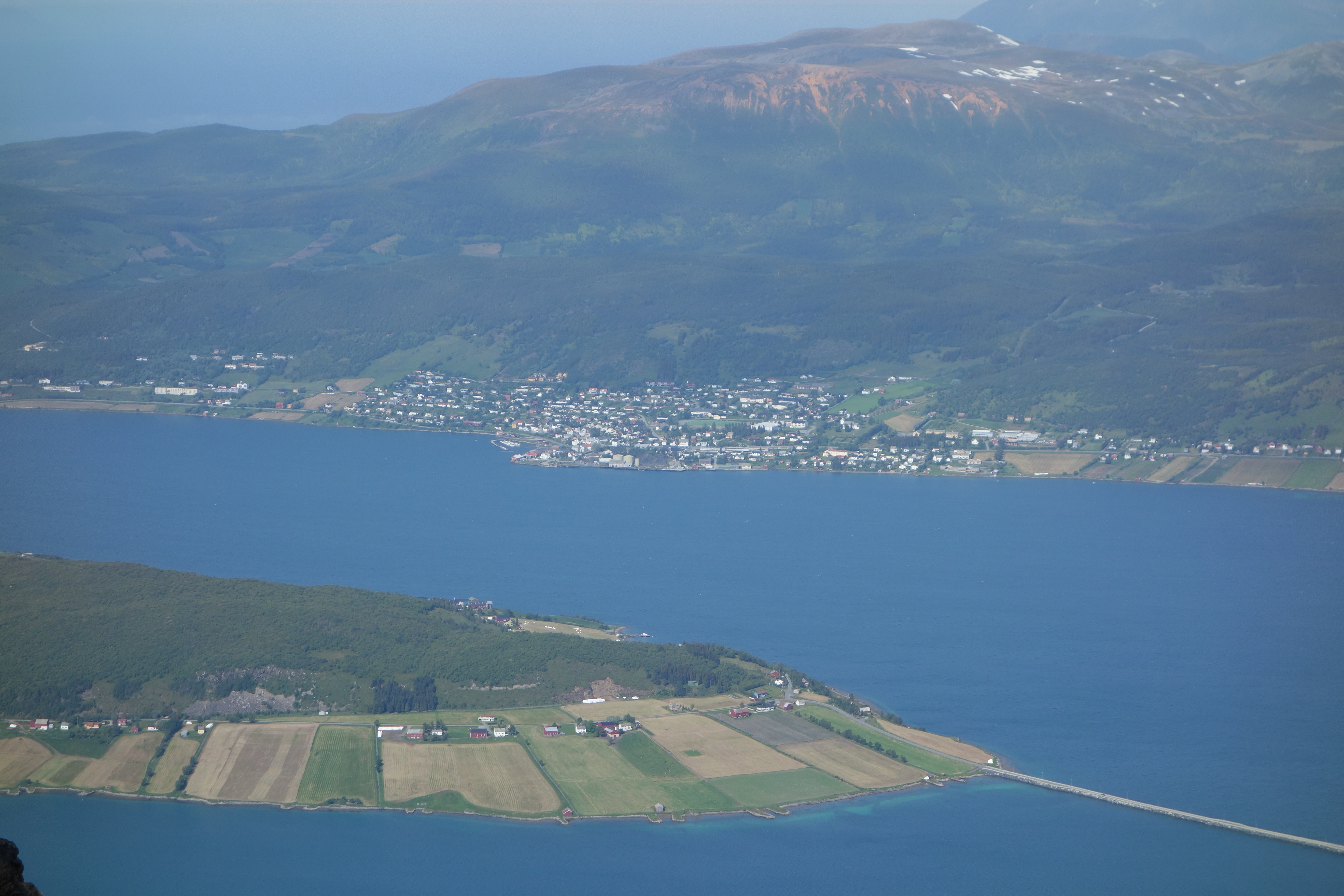 The village Borkenes in Kvæfjord municipality, Troms county, Norway. Seen from the mountain Middagstinden. Picture taken in direction north. In the foreground the southeastern point of the island Kveøya.